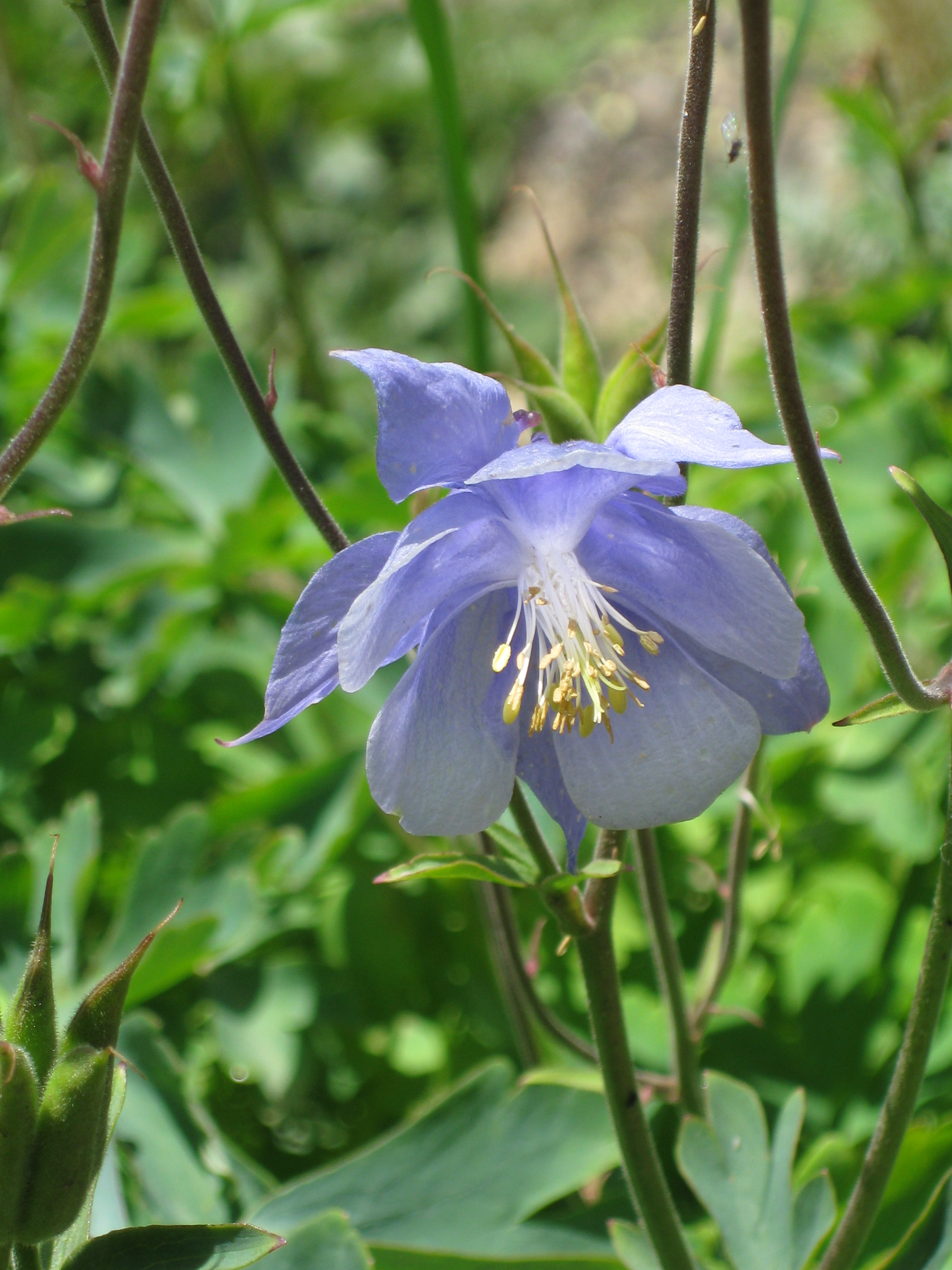 Aquilegia bernardii in the Jardin Botanique Alpin du Lautaret